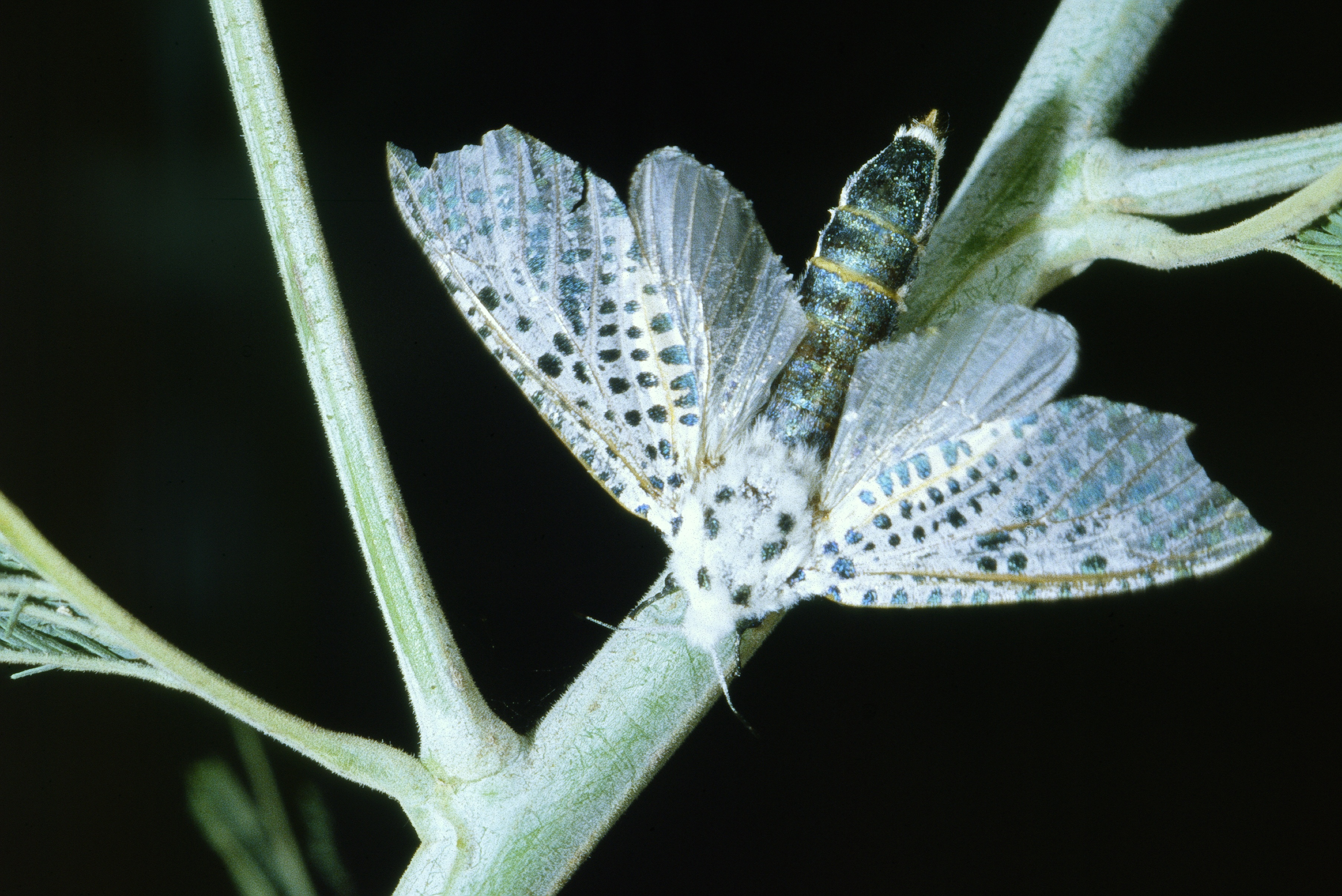 Butterfly moth Zeuzera pyrina, photographed in Calvados, in France.